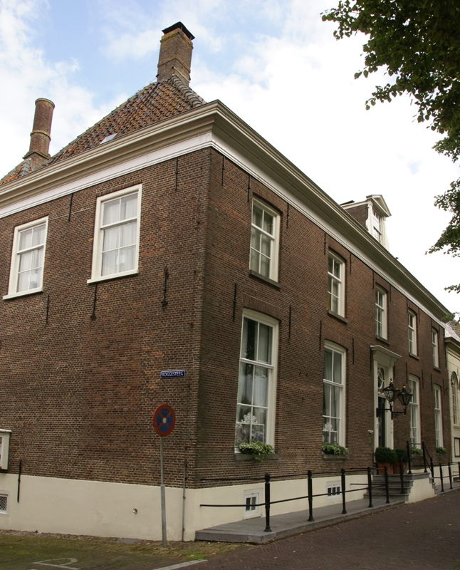 National monument no. 28409 - Westerhaven 20, Medemblik, The Netherlands.